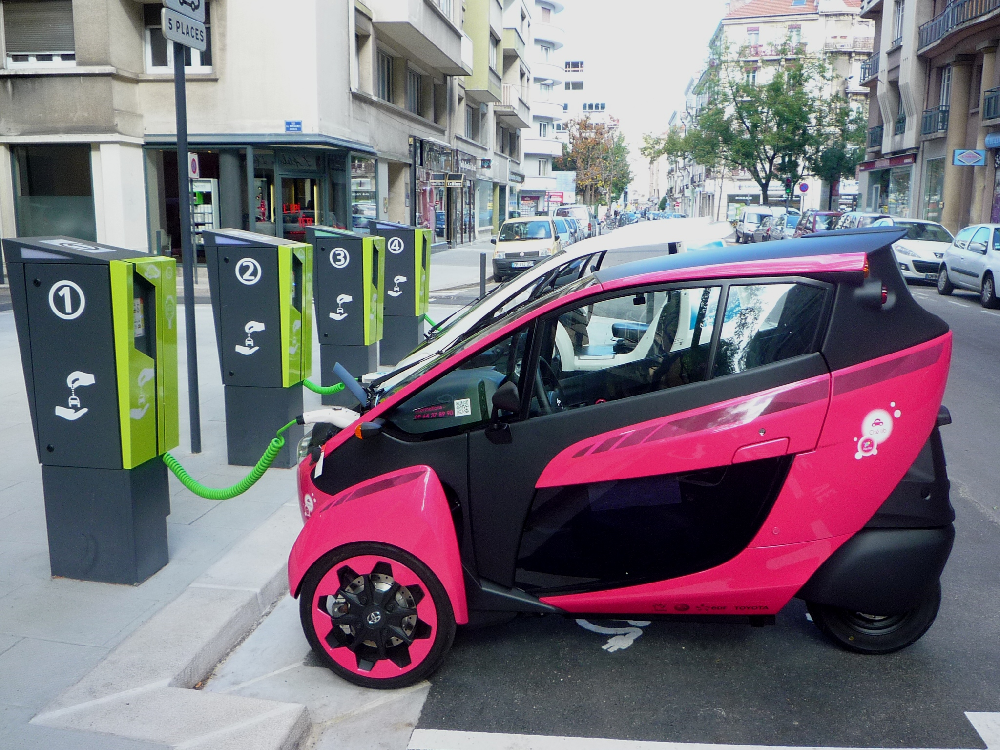 One of 70 Toyota I-Road in front of his charging station (Grenoble)